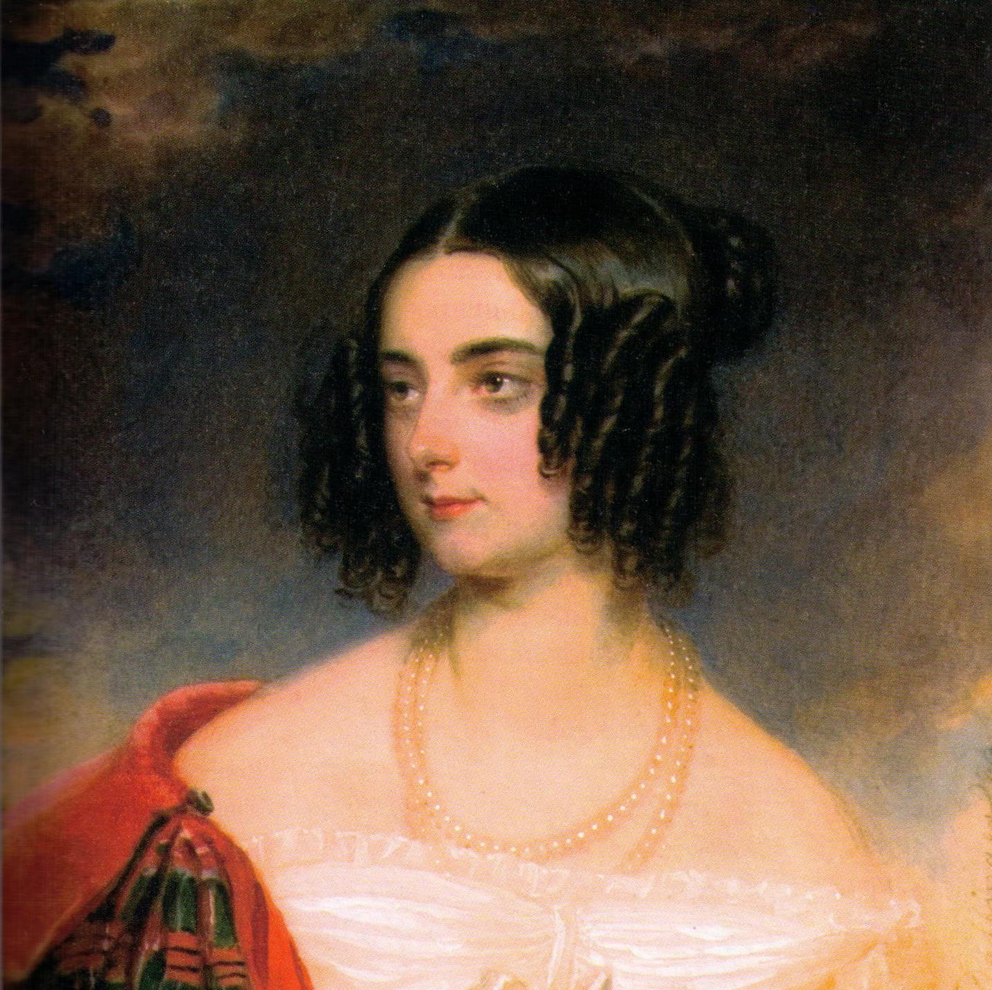 Portrait of Delfina Potocka